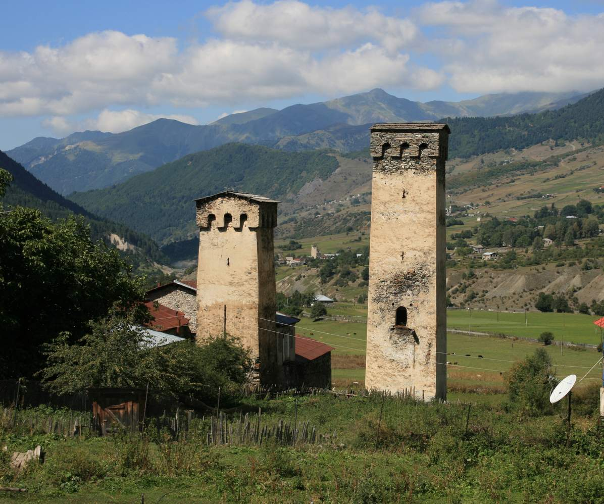 Mulakhi community. Svanetian towers